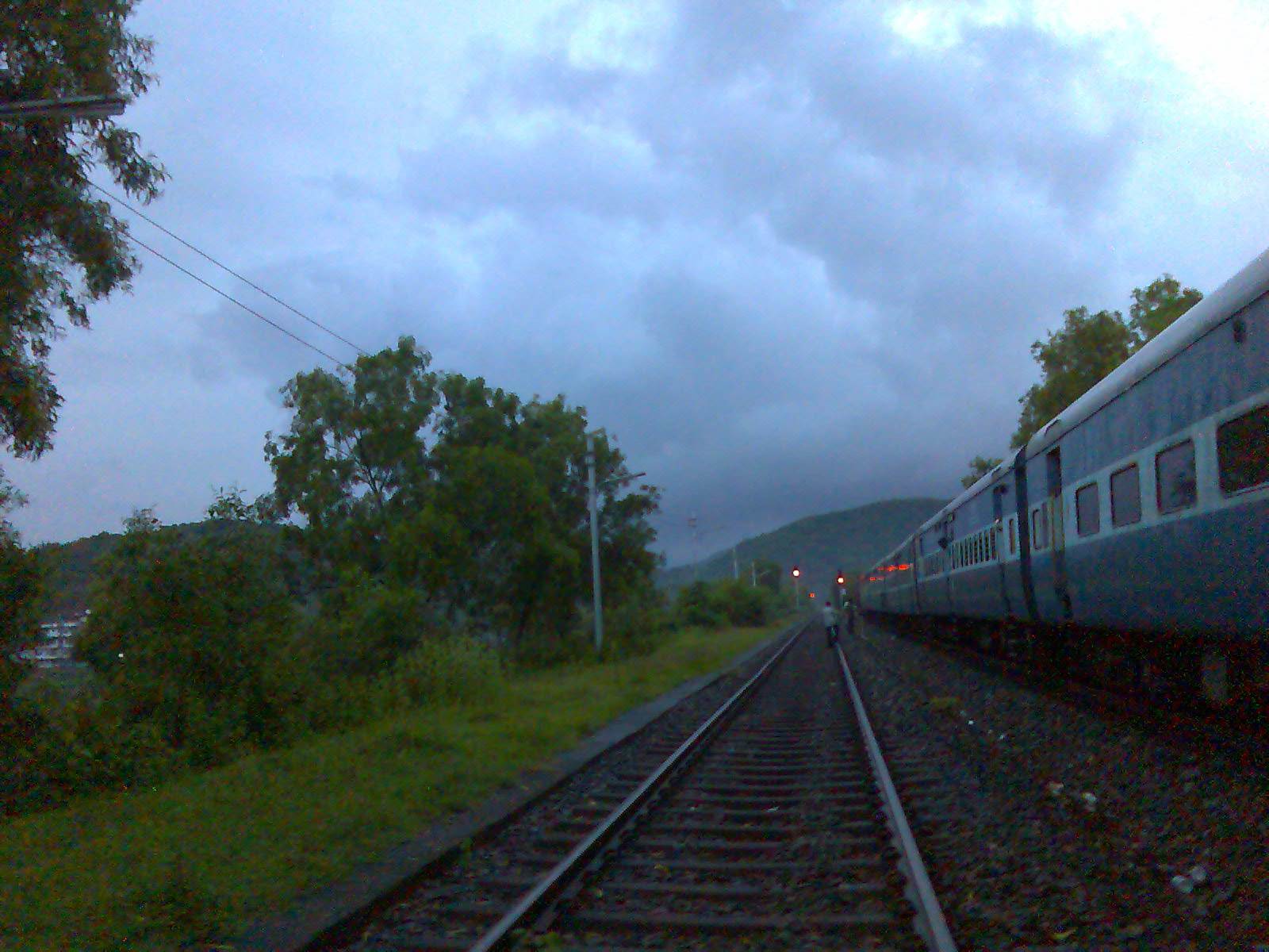 Cancona Railway Station, Goa